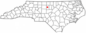 Category:North Carolina Dot Maps